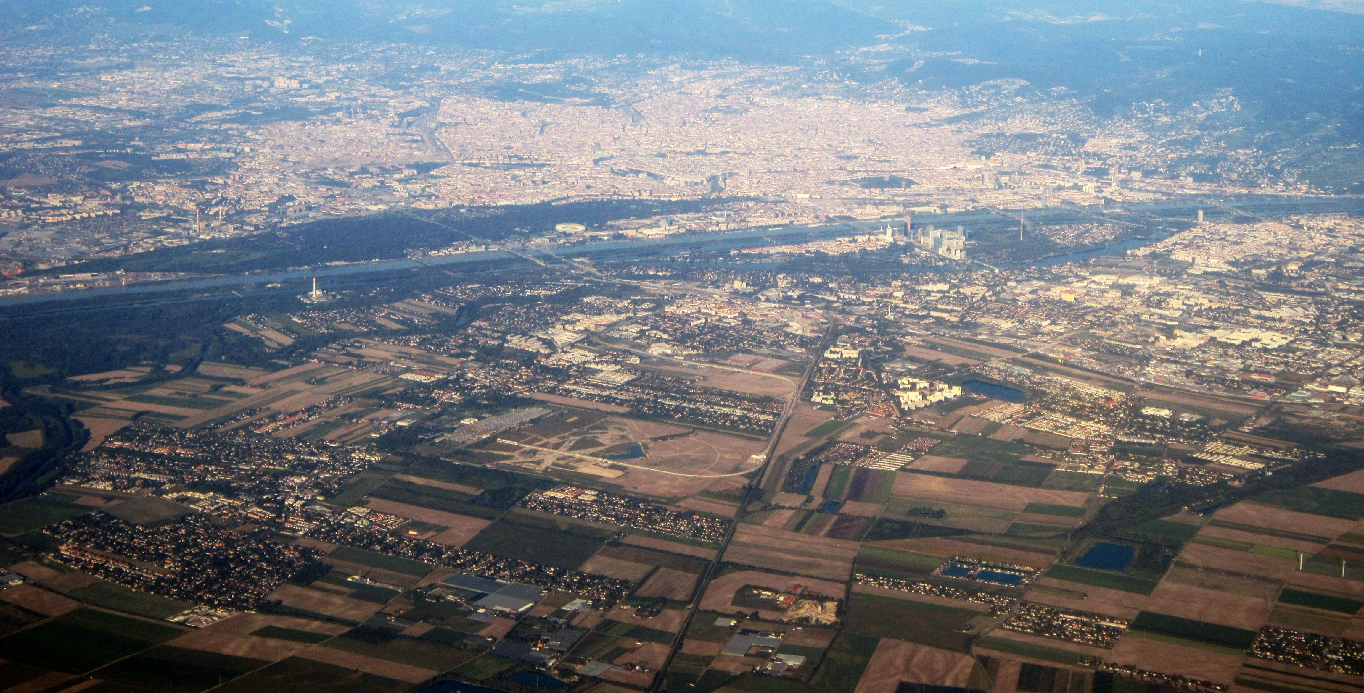 Aspern and Essling in Donaustadt, with central Vienna in the background, and Aspern Airfield in the center of the image